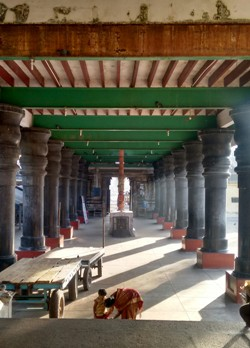 Natchiyarkovil srinivasaperumal temple நாச்சியார்கோயில் சீனிவாசப்பெருமாள் கோயில்